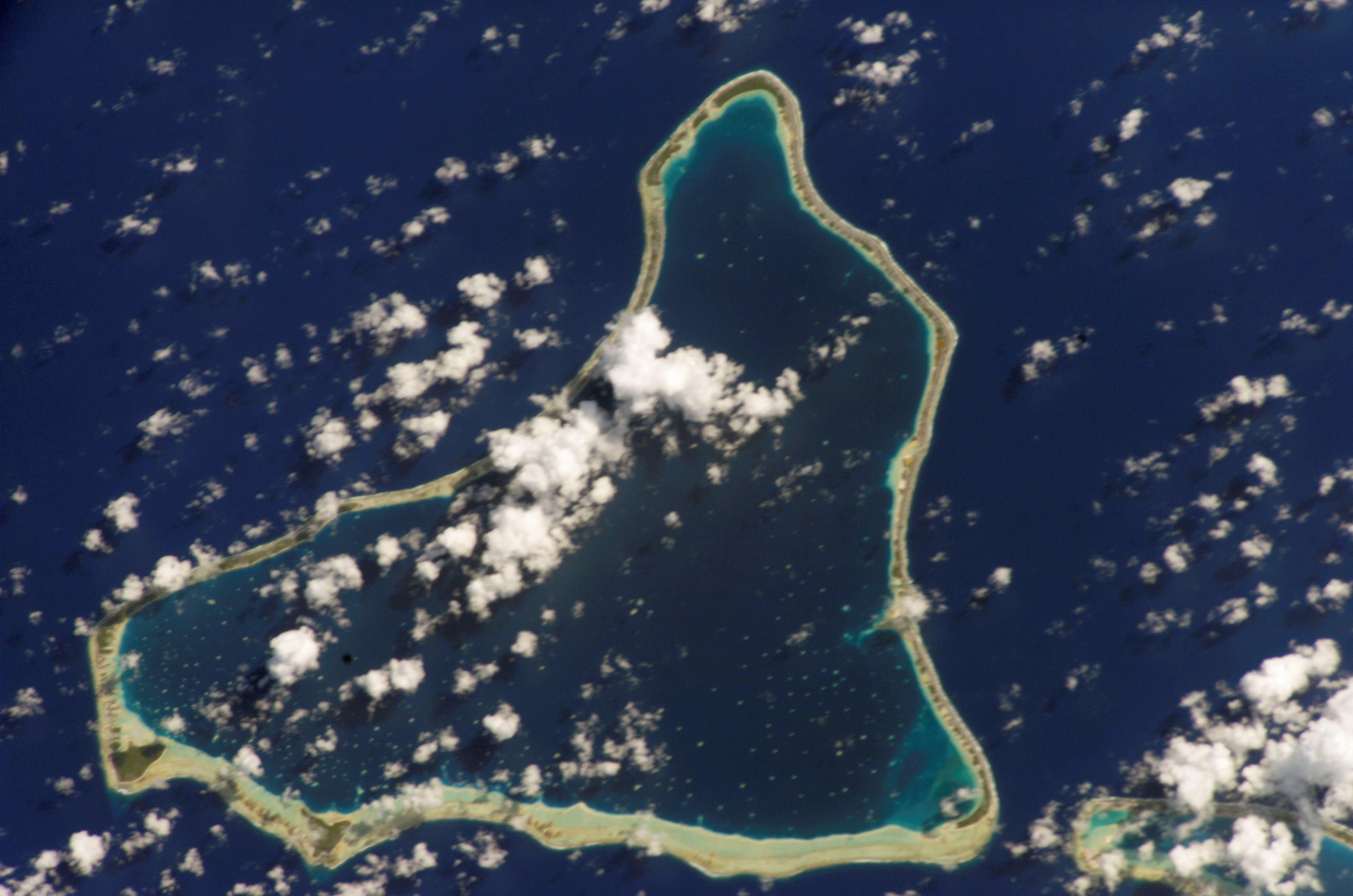 NASA astronaut image of Marokau atoll (Tuamotu Archipelago, French Polynesia) in the Pacific Ocean